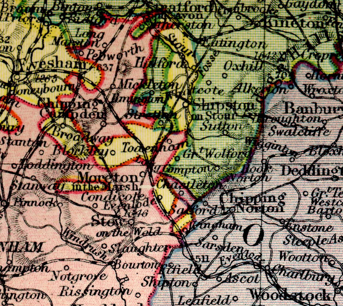 A detail of plate 23/24 of Philips' New Handy General Atlas, 1921, showing four English counties meeting at the four-shire stone.